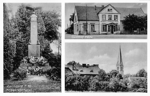 Sarbinowo (Zorndorf) by Kostrzyn (Küstrin)